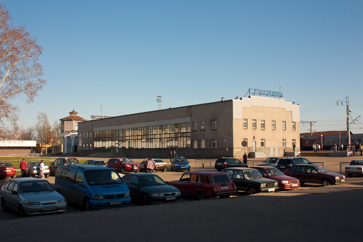 Train station in Glasov, Udmurt Republic, Russia, along the Trans-Siberian Railway.